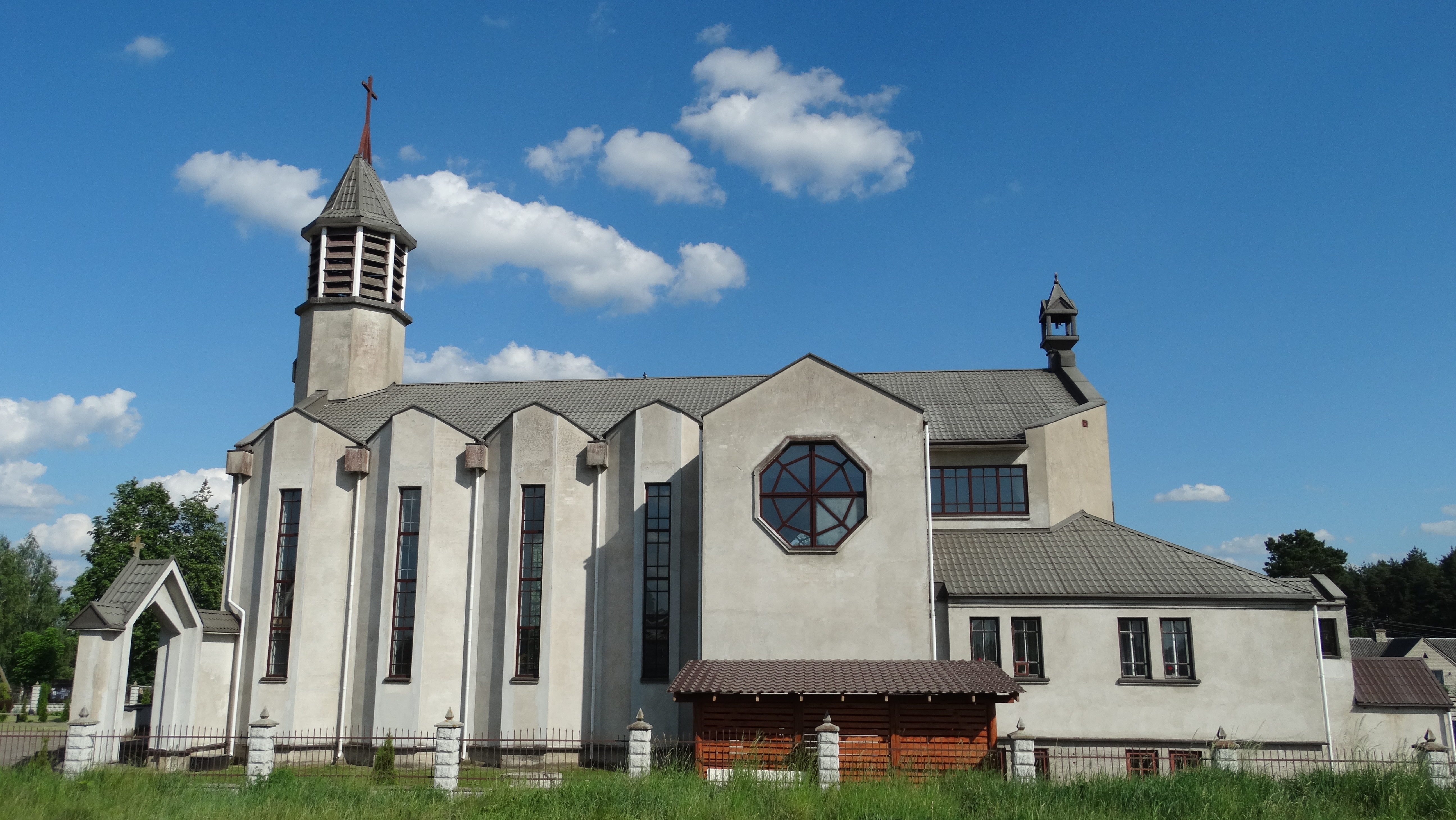 Divine Mercy Catholic Church, Kalveliai, Vilnius District, Lithuania